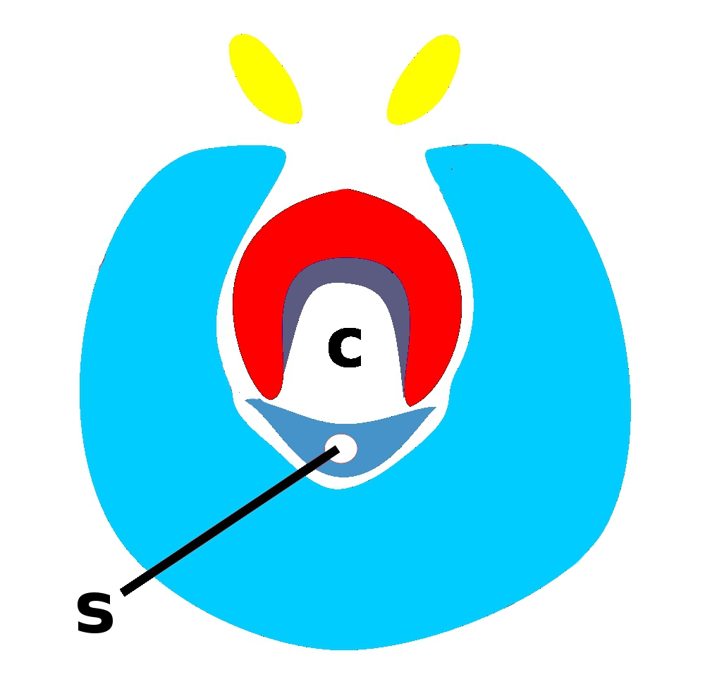 Section of mouthparts of Muscomorpha. red: labrum; lila: epipharynx; c: food canal; yellow: maxillary palp; darker blue: hypopharynx; s: salivary canal; blue: labium